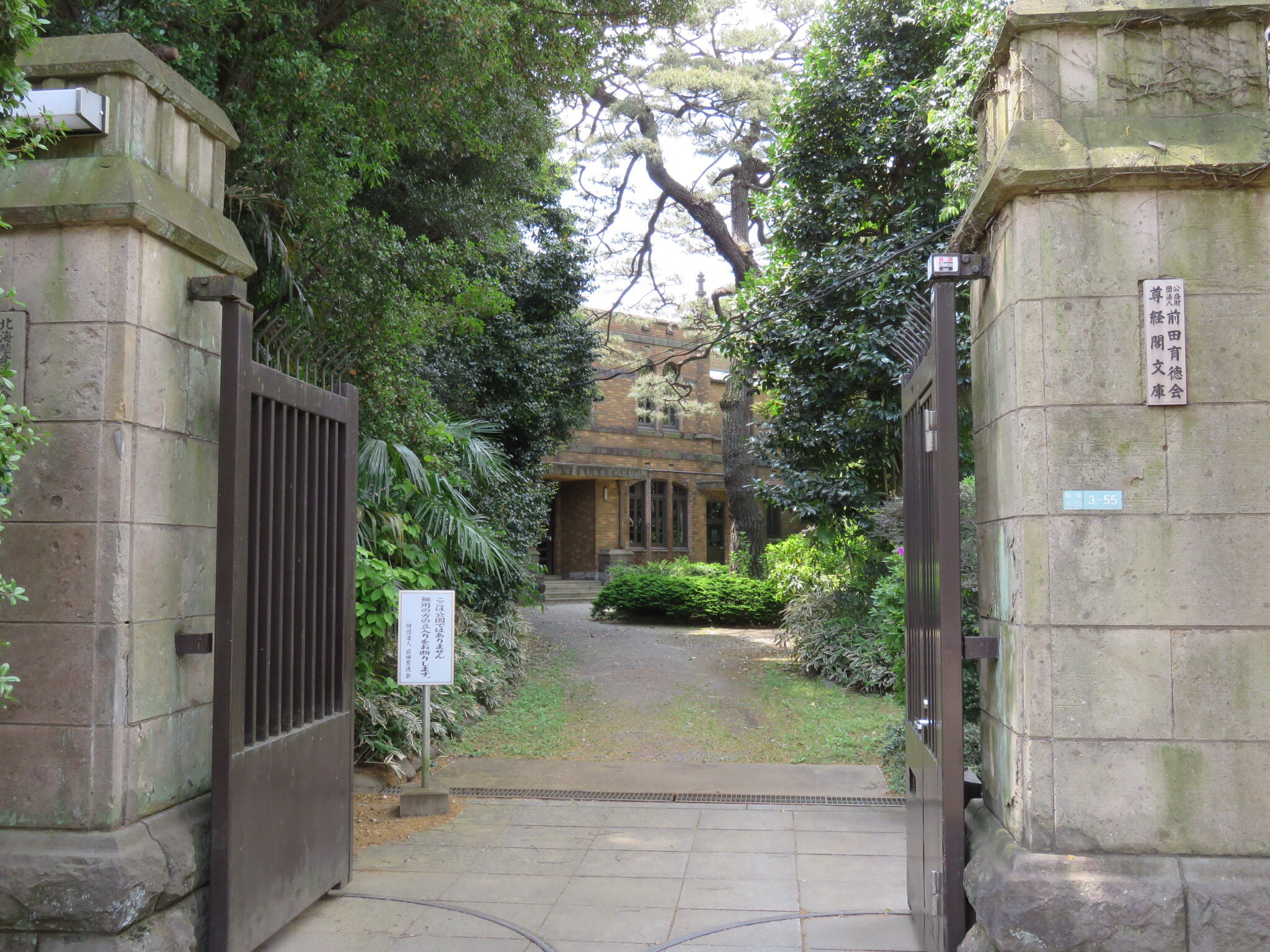 Sonkeikaku Bunko, Komaba, Meguro